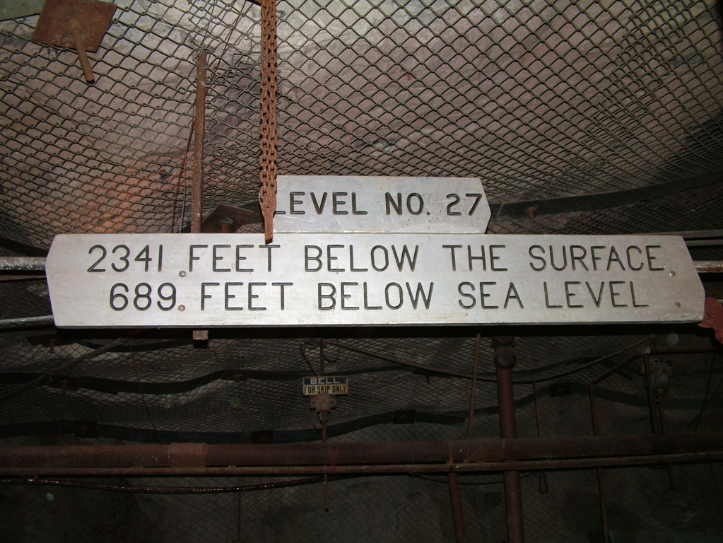 Aaron Fulkerson